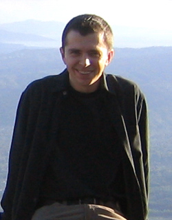 Alexander Onischuk, Tagaytay City, Phillippines, 2006